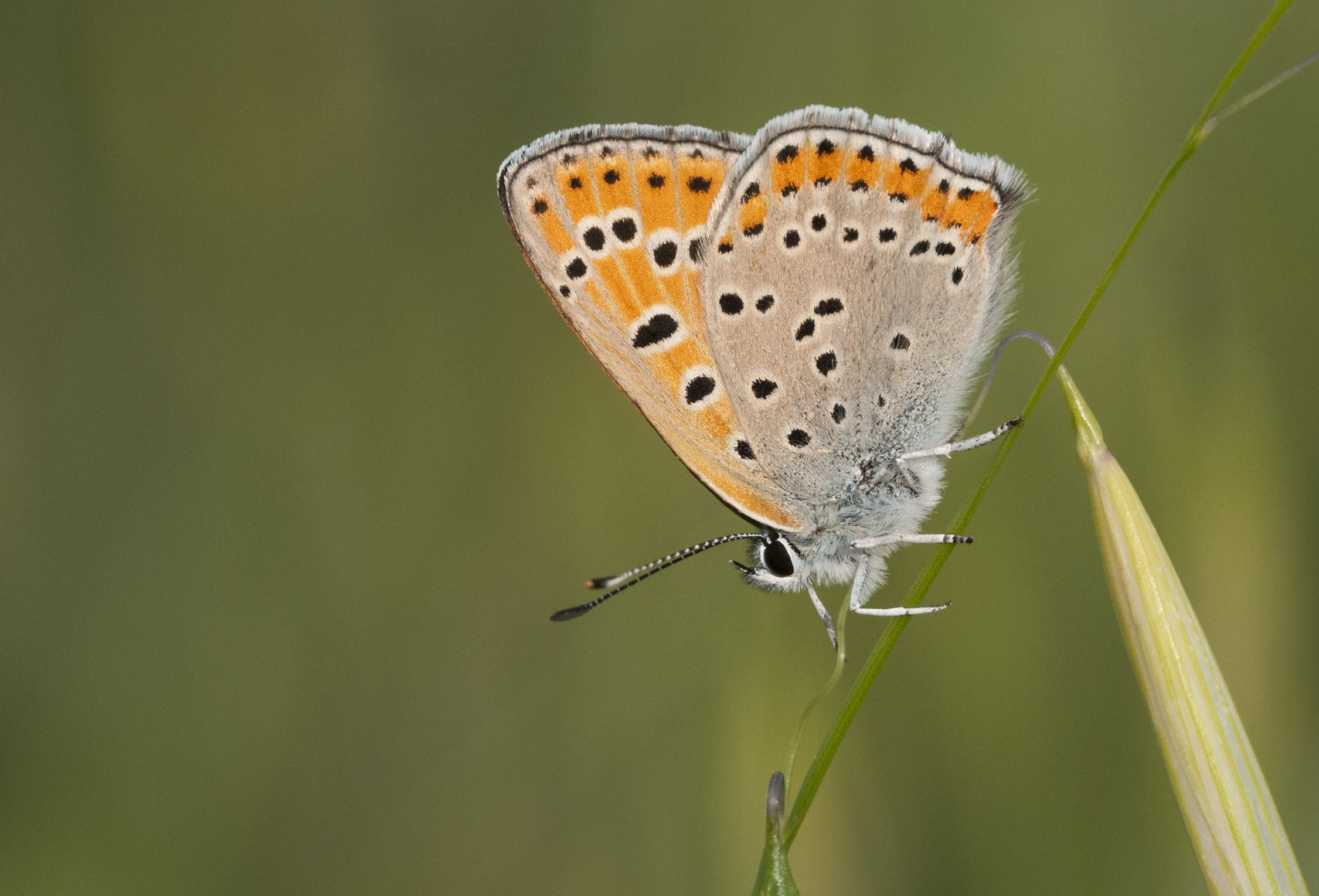 Wing underside of a male Lesser fiery copper (Lycaena thersamon). Kanlıdivane - Erdemli - Mersin, Turkey.